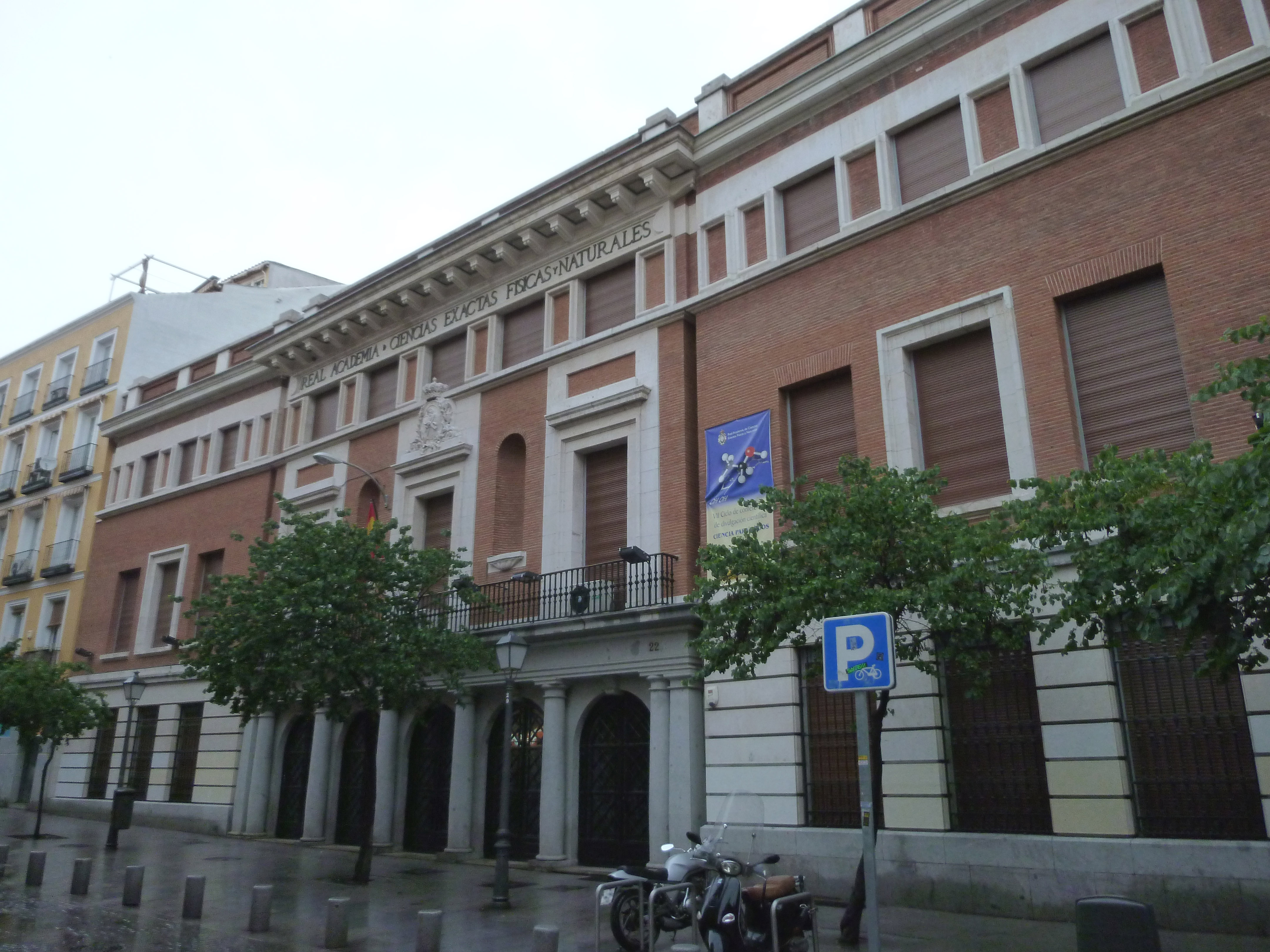 Seat of the Spanish Royal Academy of Sciences, at 22 Calle de Valverde (street) in Centro district in Madrid. Building was projected by Juan Antonio Cuervo and built at the end of 18th century.